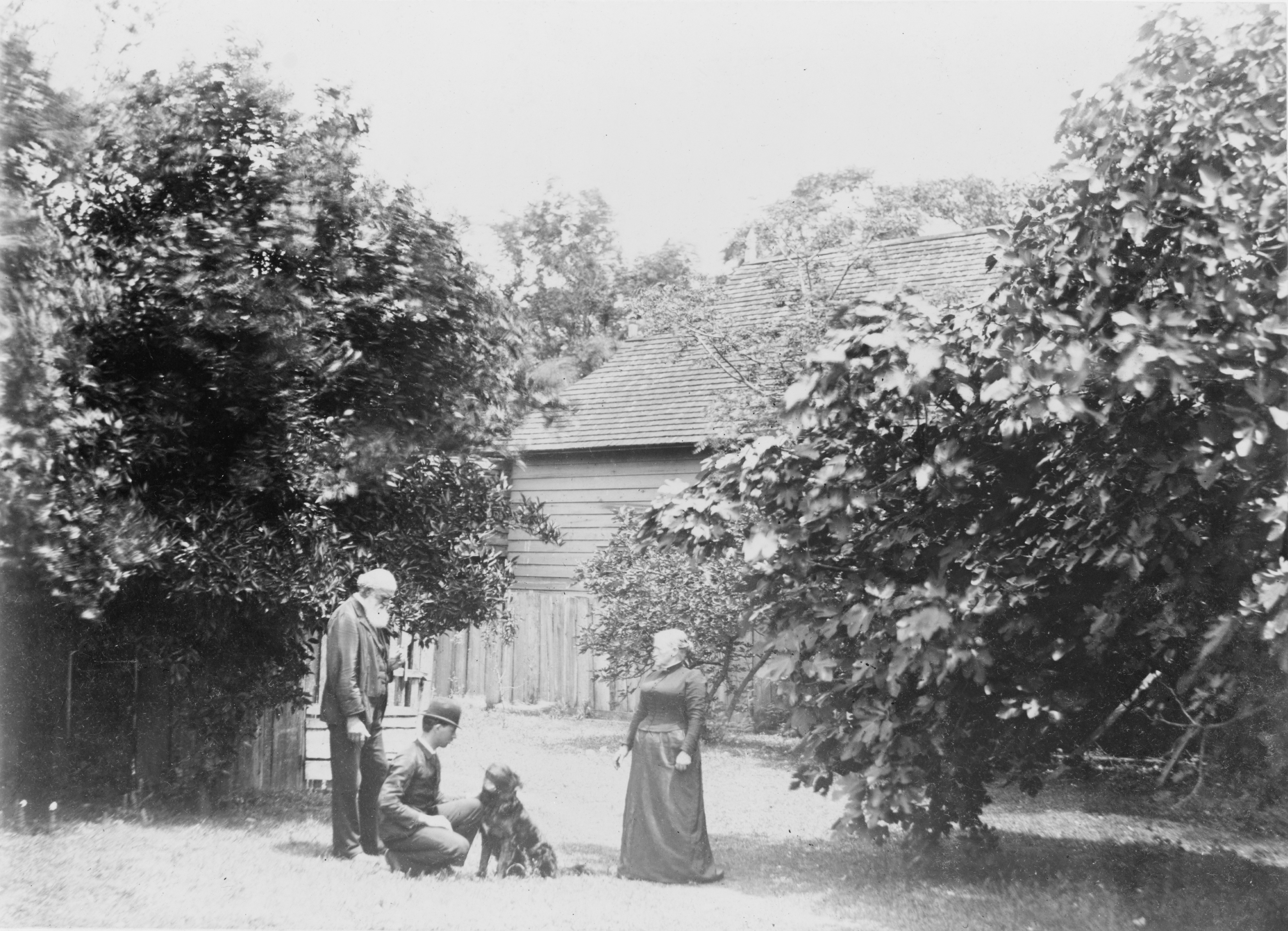 Count Tolstoy, wife, son, and dog. CREATED/PUBLISHED: [between 1870 and 1890].